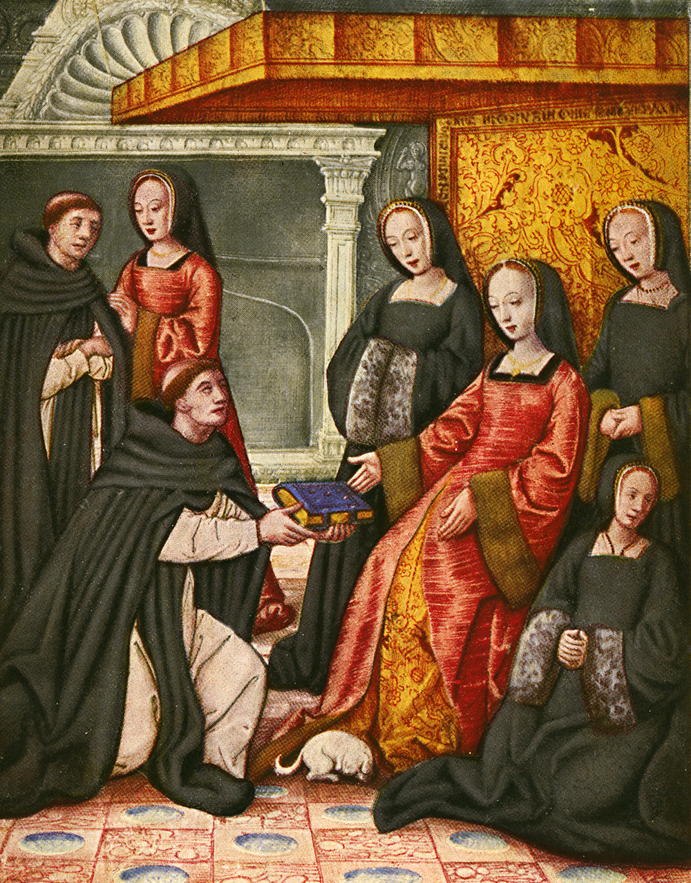 Miniature depicting Anne of Brittany receiving from Antoine Dufour the manuscript praising famous women.